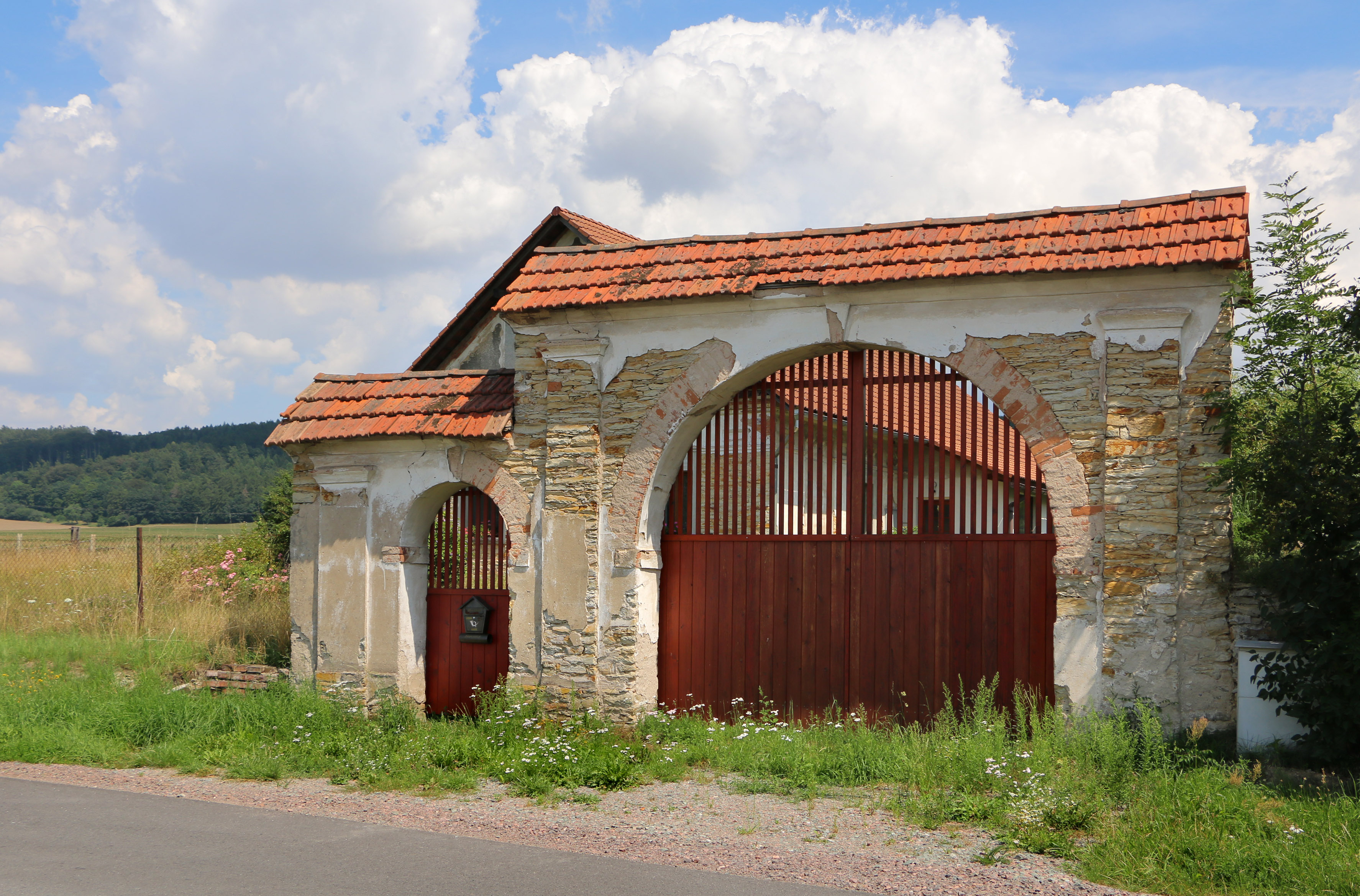 Protected house No 36 in Křivice, part of Týniště nad Orlicí, Czech Republic.